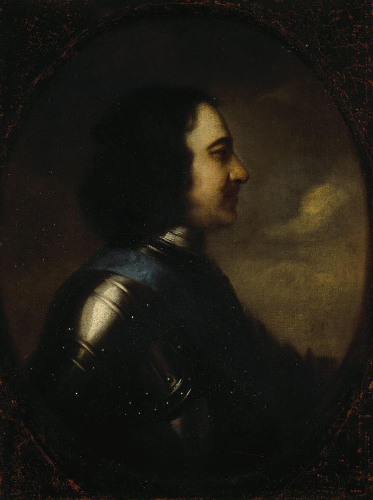 Portrait of Peter the Great (1672-1725)